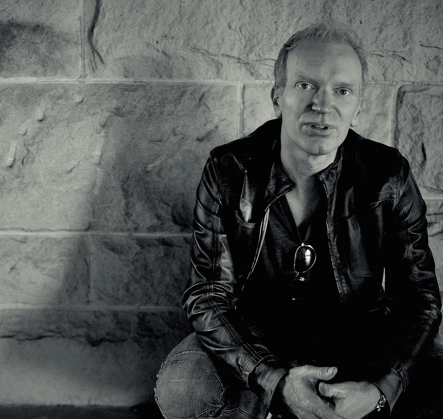 2015 photograph of Bart Decrem